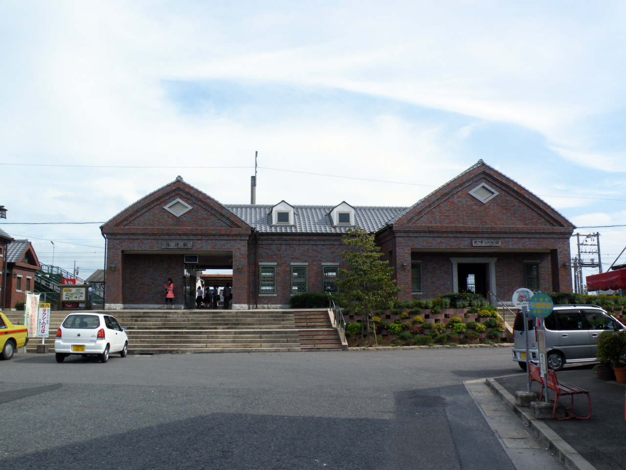 Ushizu Station（JR-Kyushu Nagasaki Main Line）